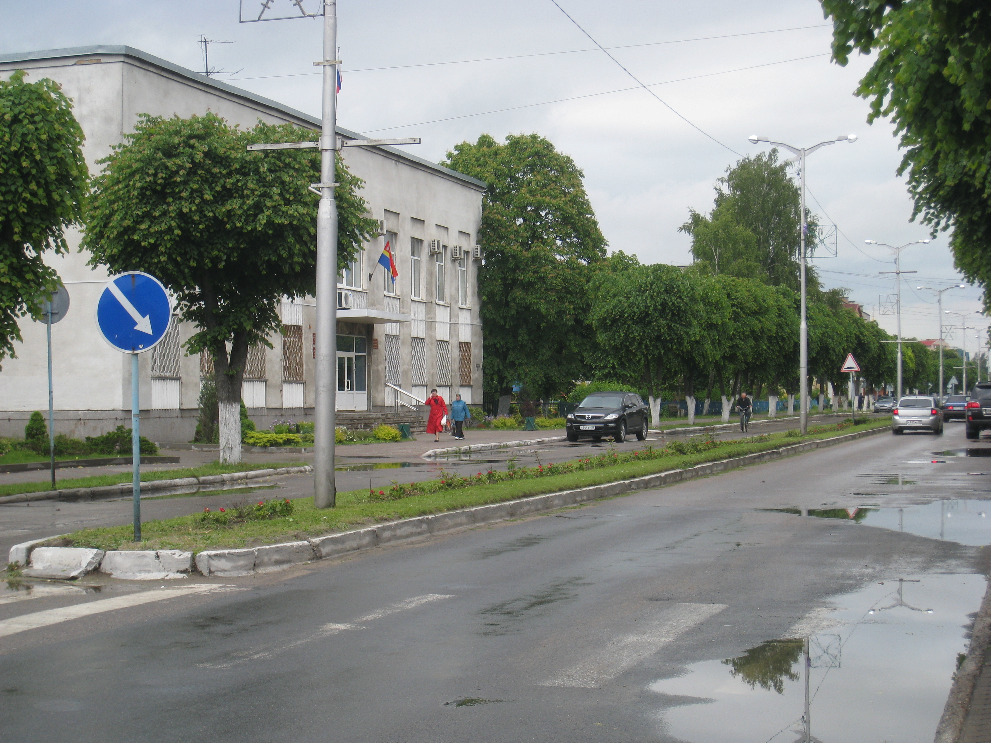 Soviet street